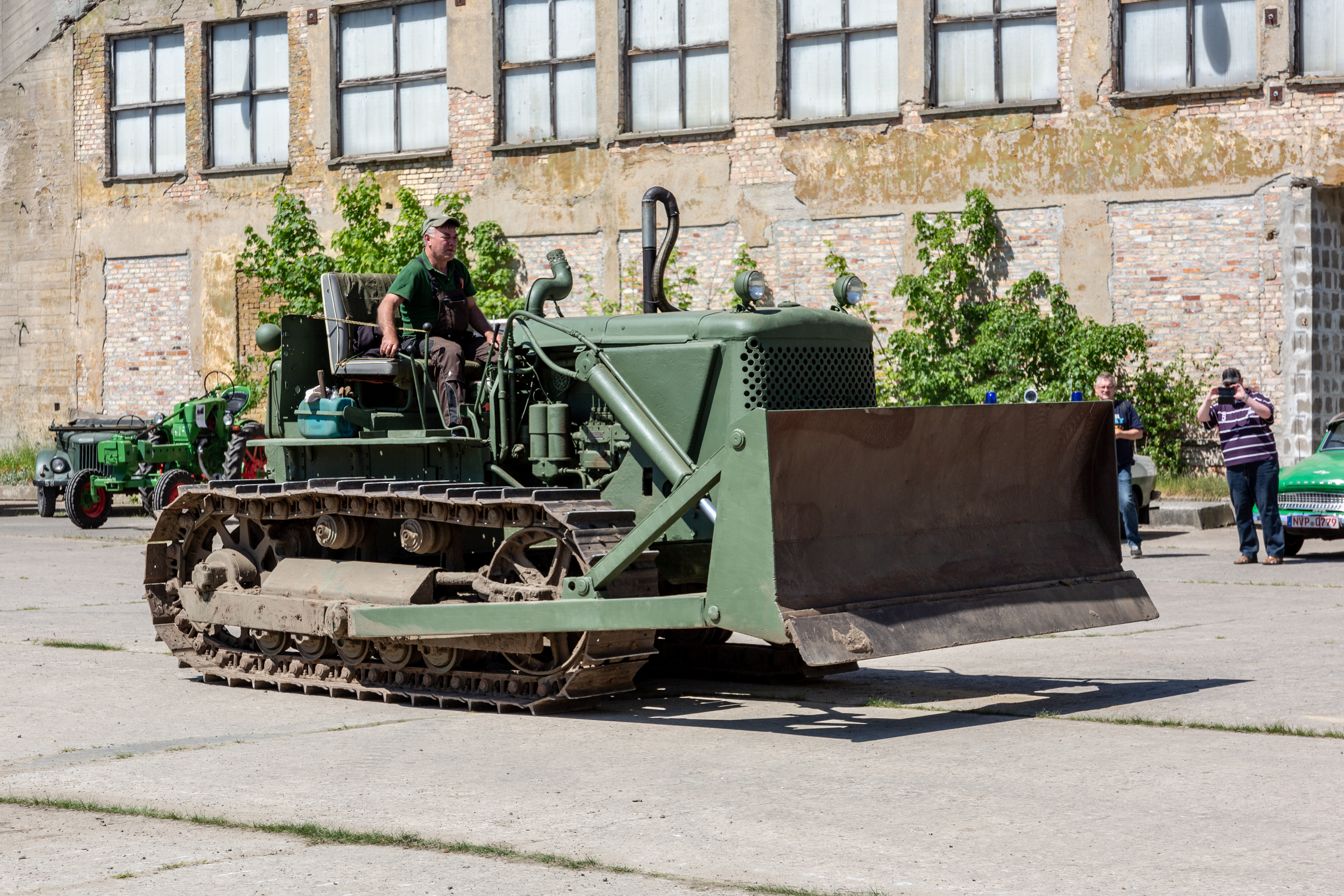 T-100 bulldozer at Pfingsttreffen Pütnitz 2018, Ribnitz-Damgarten